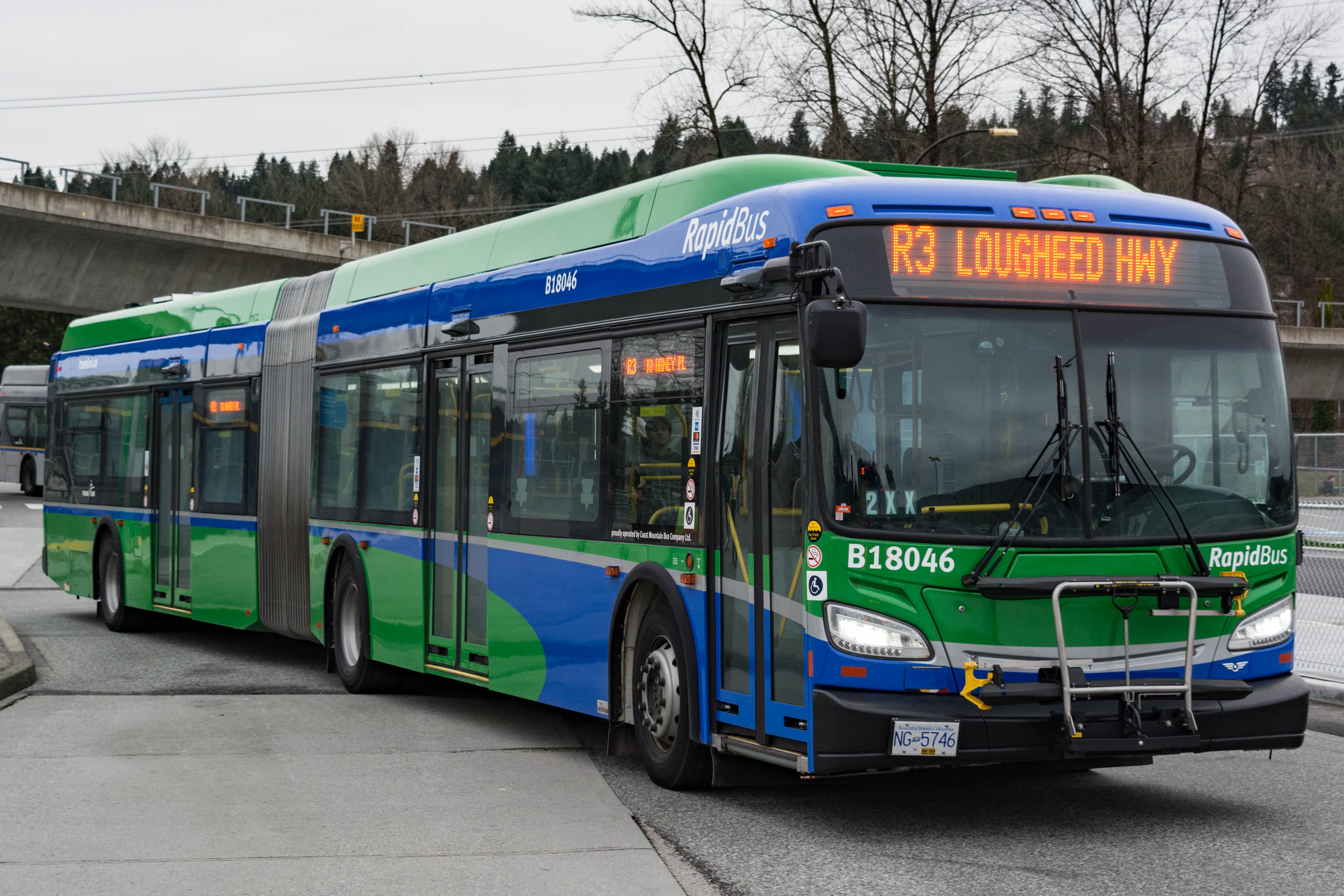 TransLink B18046 departs Coquitlam Station on the R3 route